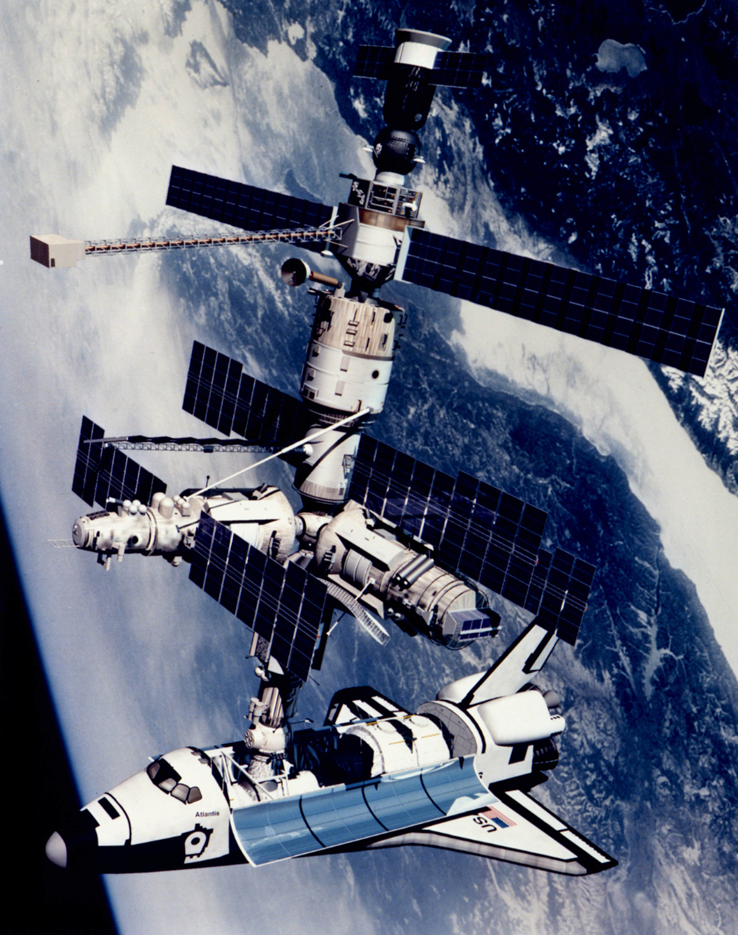 Shown is a technical rendition of the Space Shuttle Atlantis docked to the Kristall module of the Russian Mir Space Station. The configuration shown is that of STS-71/Mir Expedition 18, a joint U.S. Russian mission completed in June 1995. The Space Shuttle/Mir combination, which was the largest space platform ever assembled, is shown overflying the Lake Baikal region of Russia. The Space Shuttle Atlantis appears in a new configuration for the STS-71 flight. The Russian developed Androgynous Peripheral Docking System (APDS) is used to link the Orbiter to the Kristall module. The APDS is mounted atop the U.S. developed external airlock that connects to a modified tunnel section leading to the Spacelab module in the far aft of the payload bay. Mir is shown in its 6 module configuration. The Kristall module has rotated to the forward docking port of the Mir Base Block to facilitate the docking of the Space Shuttle. The Priroda module is shown extending over the port wing of the Orbiter with its solar panel in the retracted position required by the dynamics of Orbiter/Mir docking. The Kvant 2 airlock module appears parallel to the Orbiter crew module, while the Spektr module is at the nadir and is hidden from view by the port solar panel of the Mir Base Block. The Kvant module is shown at the aft of the Mir Base Block with the solar panels of the Kristall module installed and fully extended. The Soyuz TM transport vehicle used for the launch and docking of the Mir Expedition 18 crew is docked to Kvant.